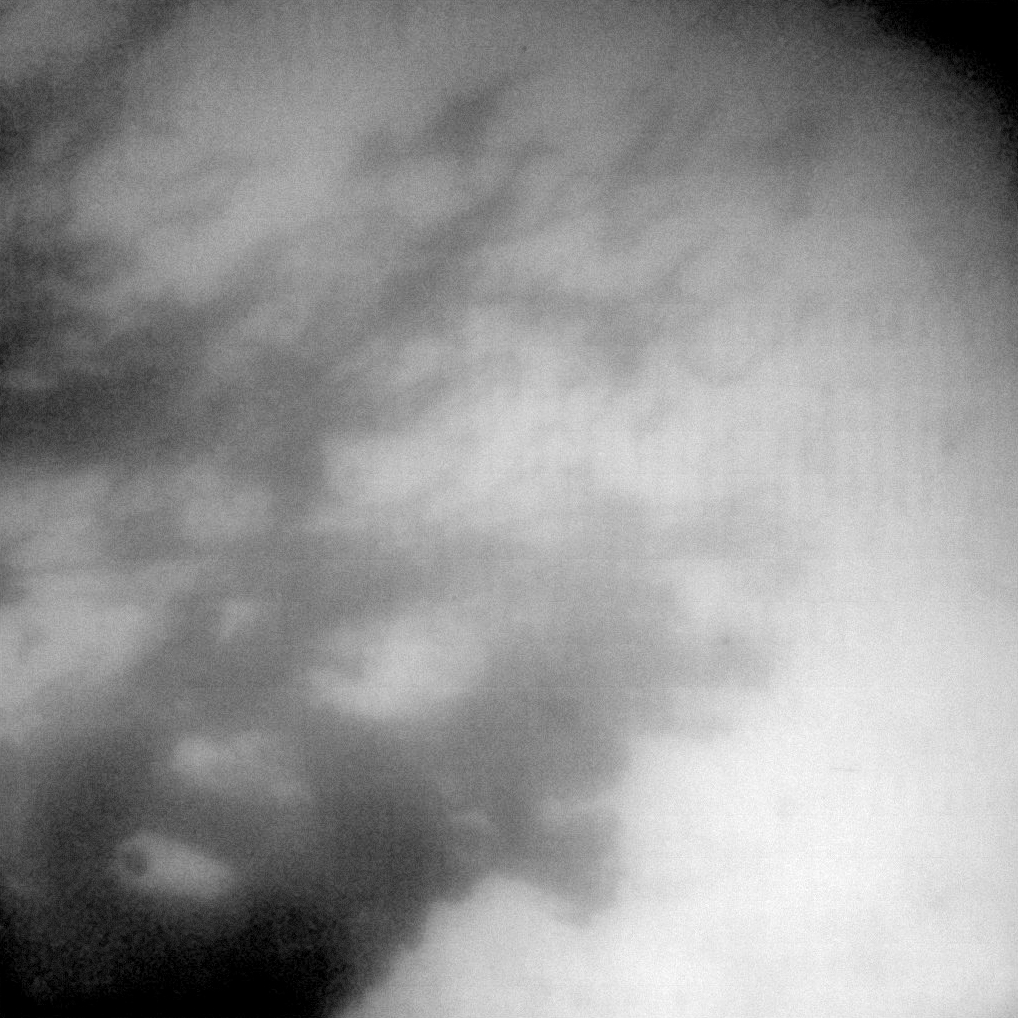 Titan's surface features Courtesy NASA/JPL-Caltech